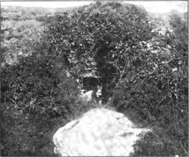 Ruins of a Celtic hill believed in 1906 to be a fairy ring.